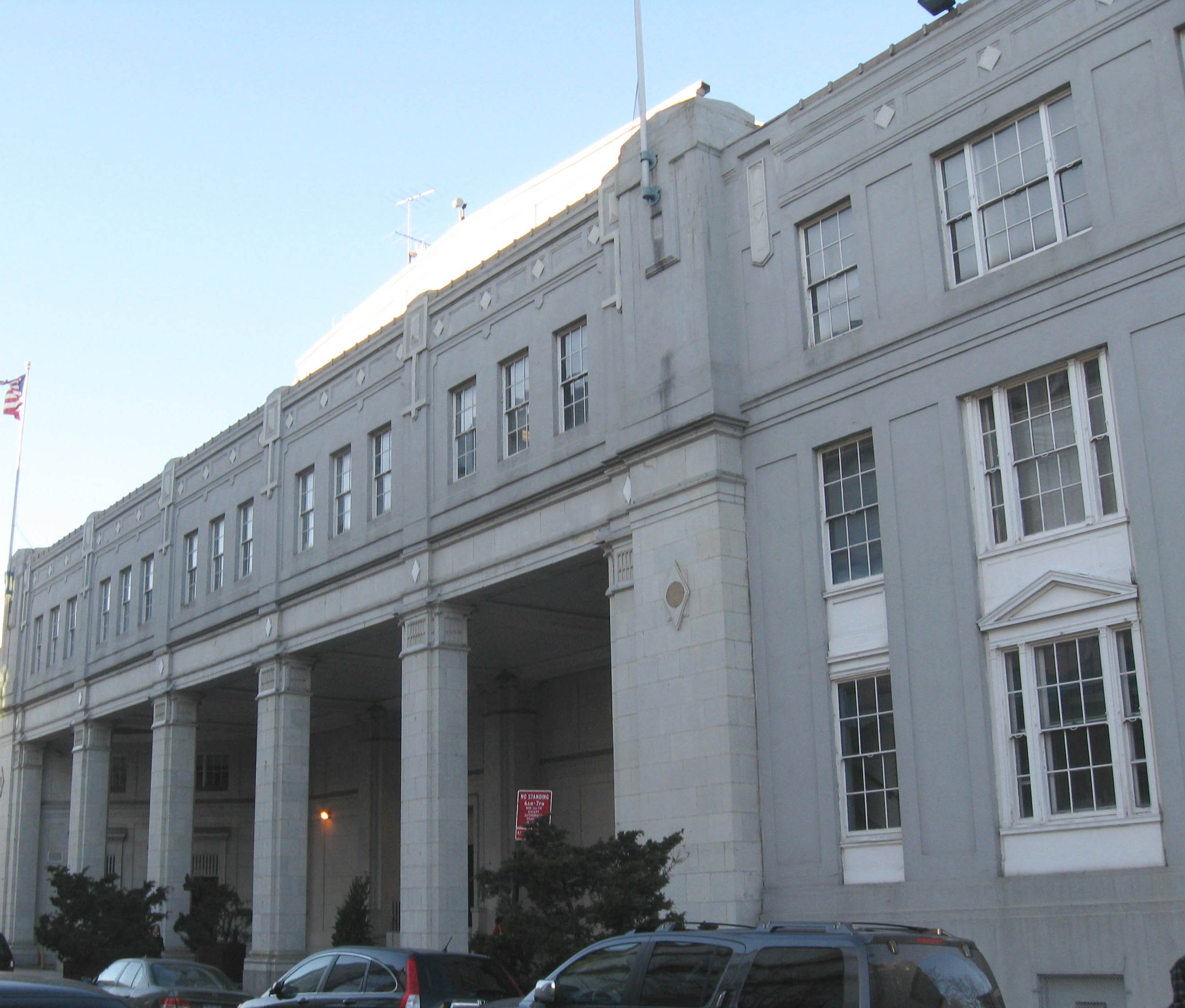 Looking northwest along 35th Avenue at south facade of Kaufman Astoria Studios, formerly Paramount Studios, on a partly cloudy afternoon. Forgetful photographer misnamed the file for another studio that was not in Astoria. ZIP 11106.